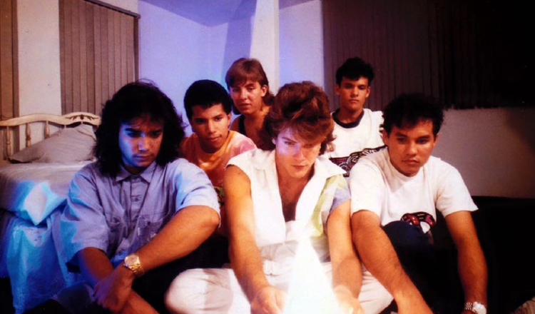 eduardo verdurmen quarzo